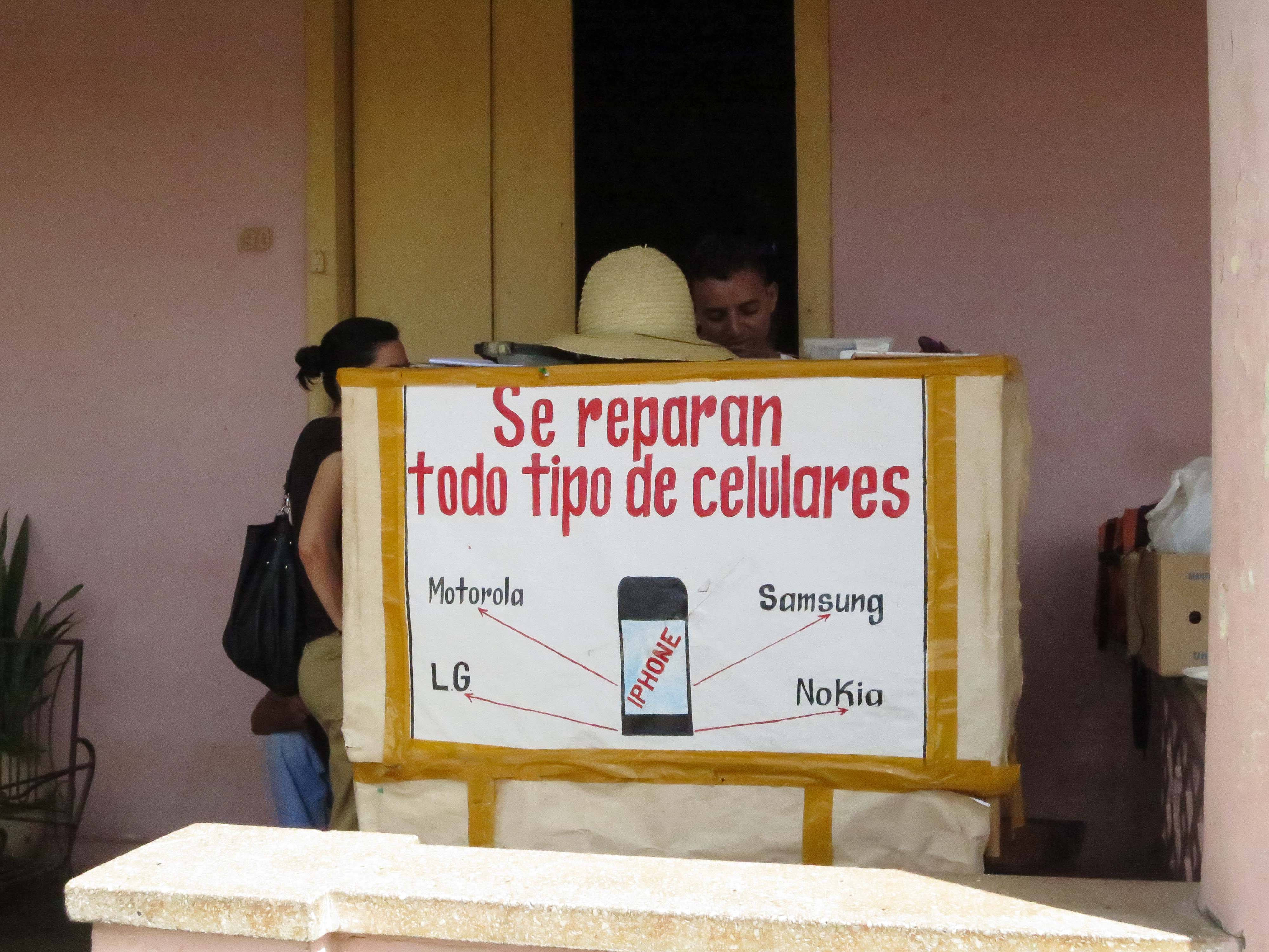 Cuentapropista in Cuba, 2012.